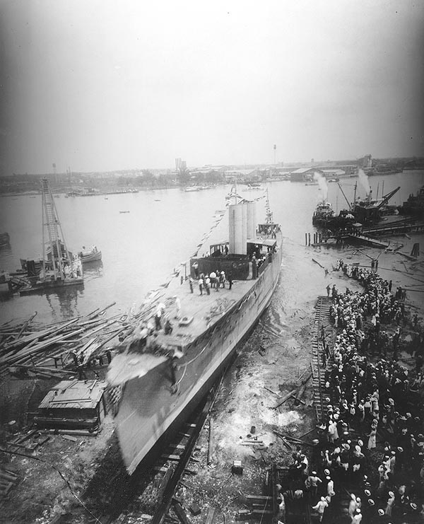 Launching of the U.S. Navy destroyer USS Craven (Dd-70), at the Norfolk Navy Yard, 29 June 1918.